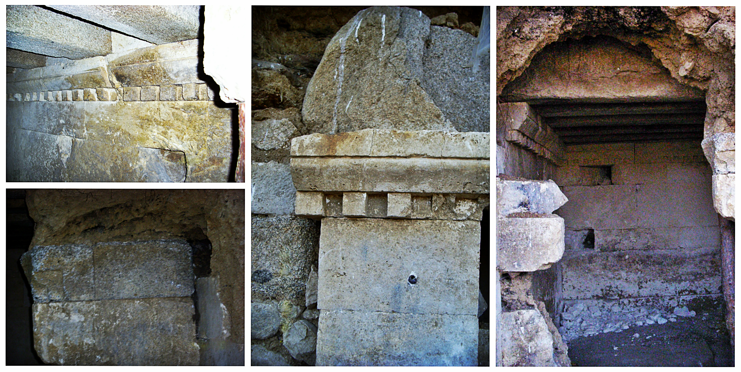 Elenishka Tumulus Heroon Starosel Bulgaria 02